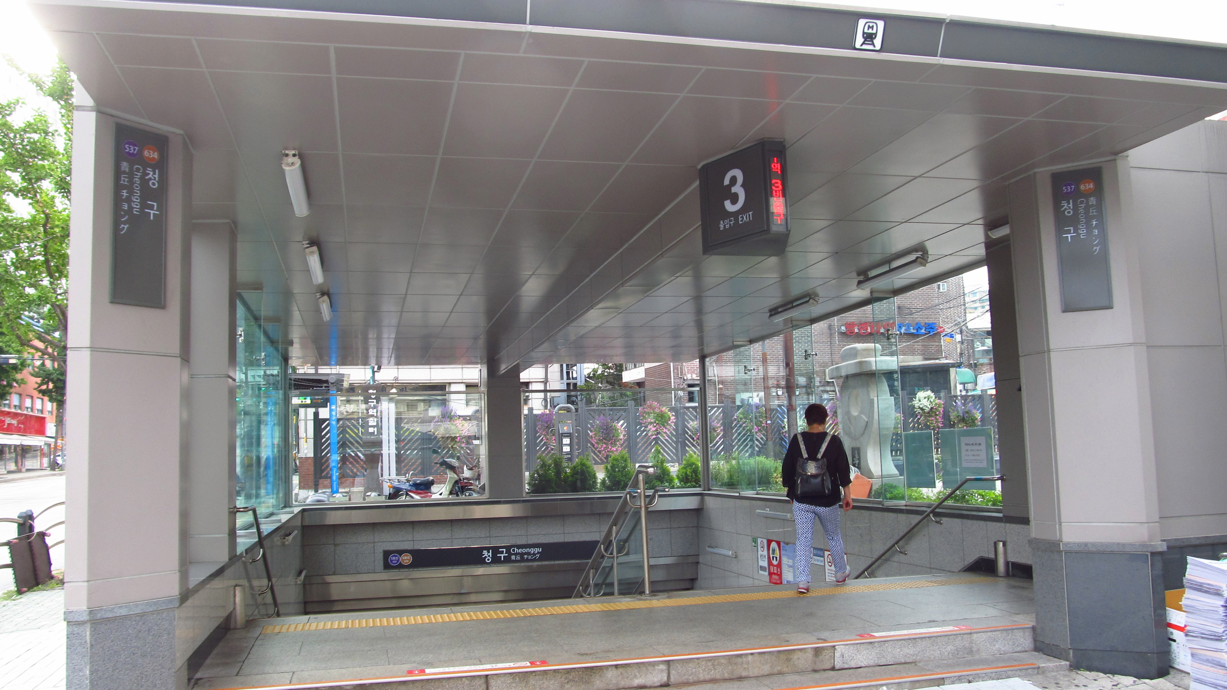 The no.3 entrance to Cheonggu Station on the Seoul Metro Line 5, Line 6 in Jung-gu, Seoul, Republic of Korea(South Korea)